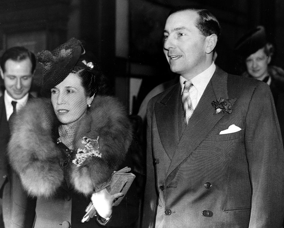 Sport, Golf, London, England, 11th December 1939, Henry Cotton, (1907-1987), The picture shows Henry Cotton on his wedding day, with his wife 'Toots', at the Savoy Hotel